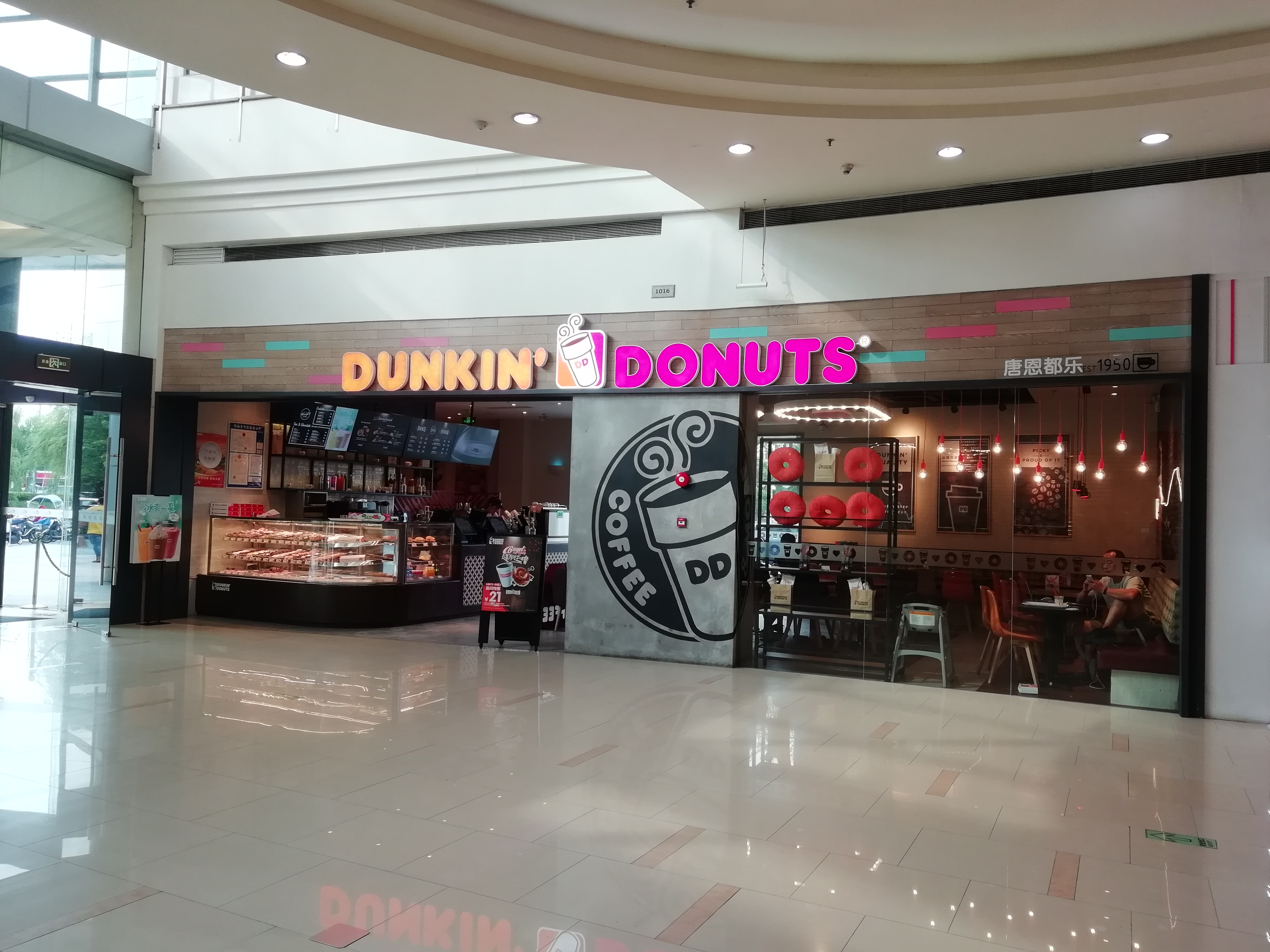 A Duckin Donuts Restaurant, located in Suzhou Industrial Park. 中文（中国大陆）: 位于苏州工业园区的唐恩都乐餐厅